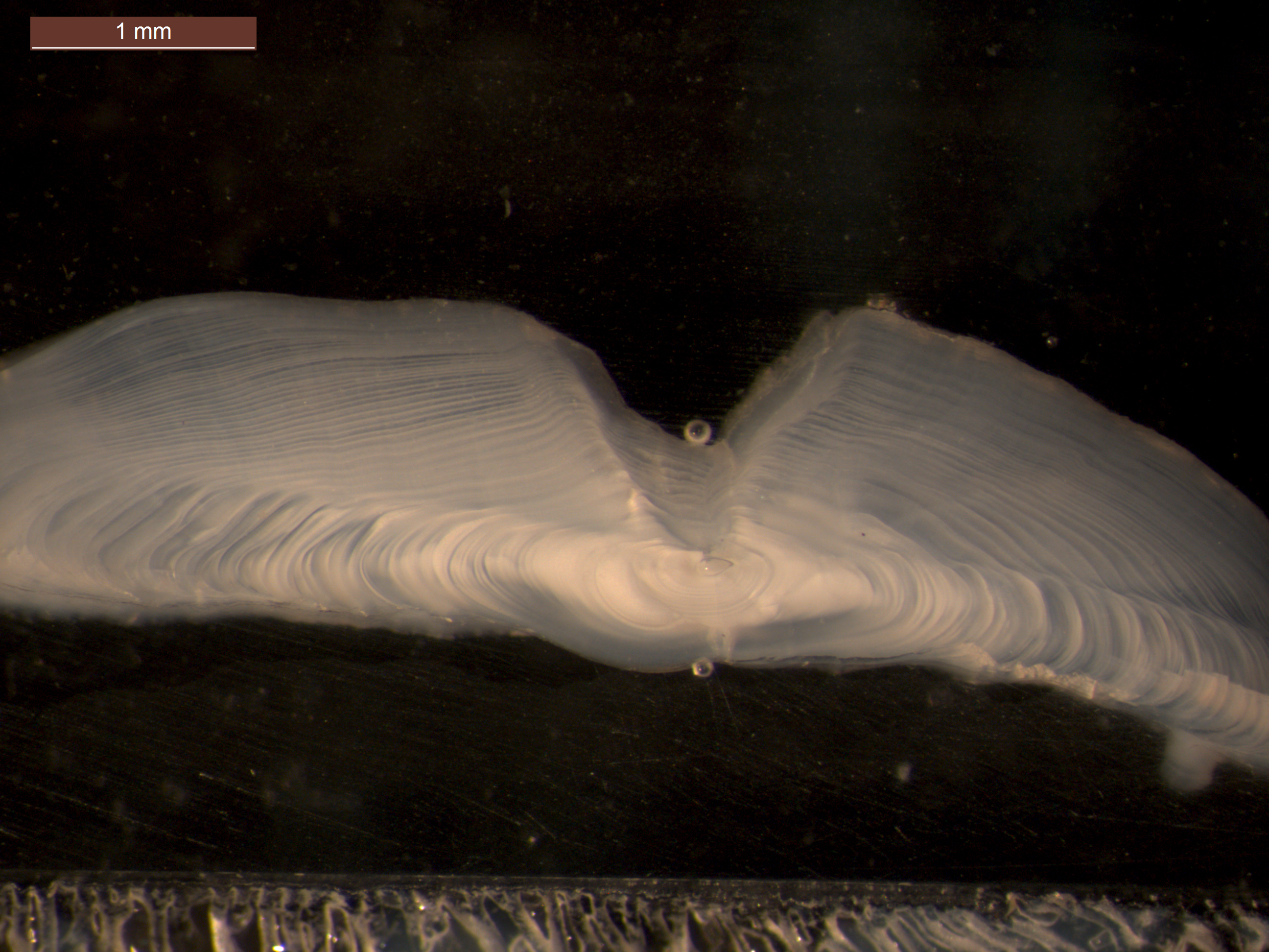 The earbone or "otolith" of a black rockfish bears rings that correspond with its age -- according to USGS biologists, this fish is more than 40 years old!